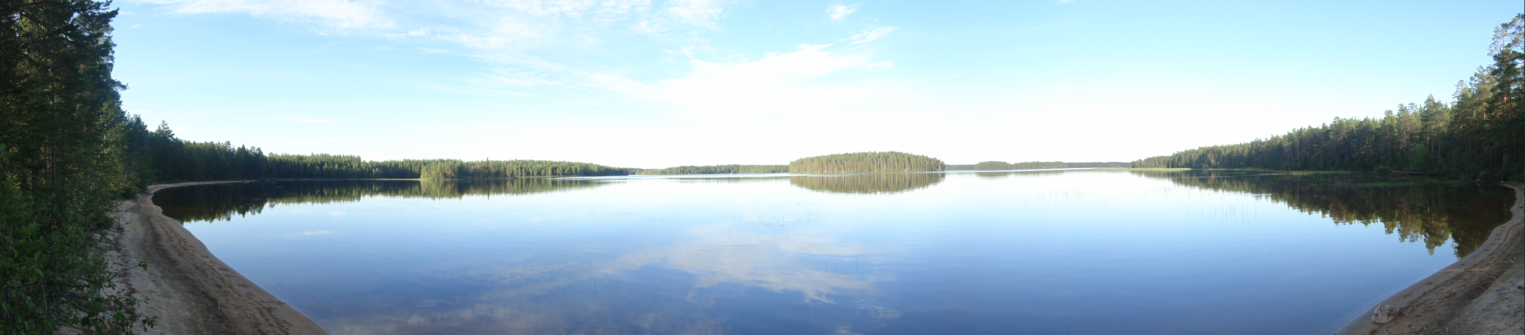 Natural lagoon on an island in a Finnish lakeside.